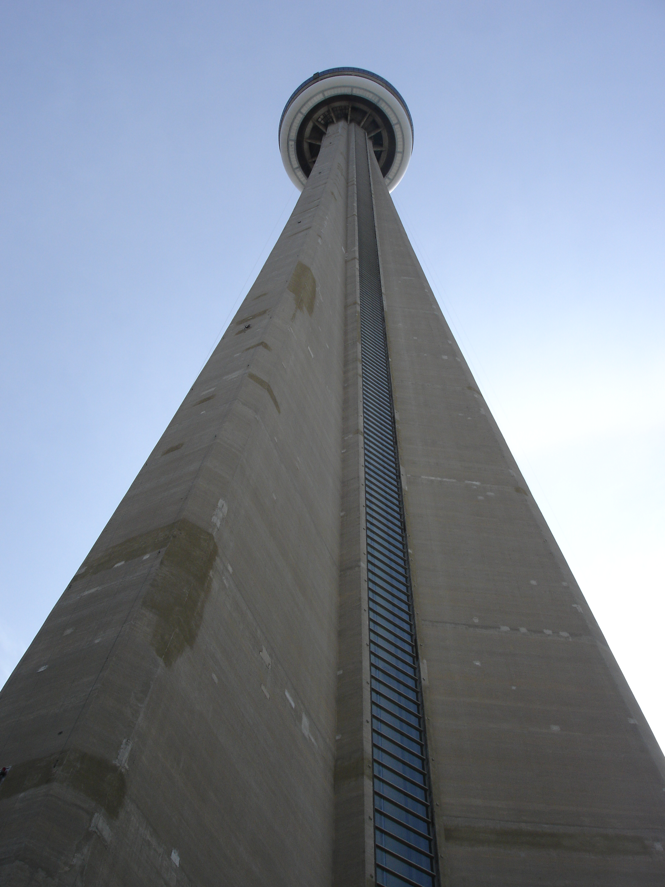 CN Tower vista dal basso